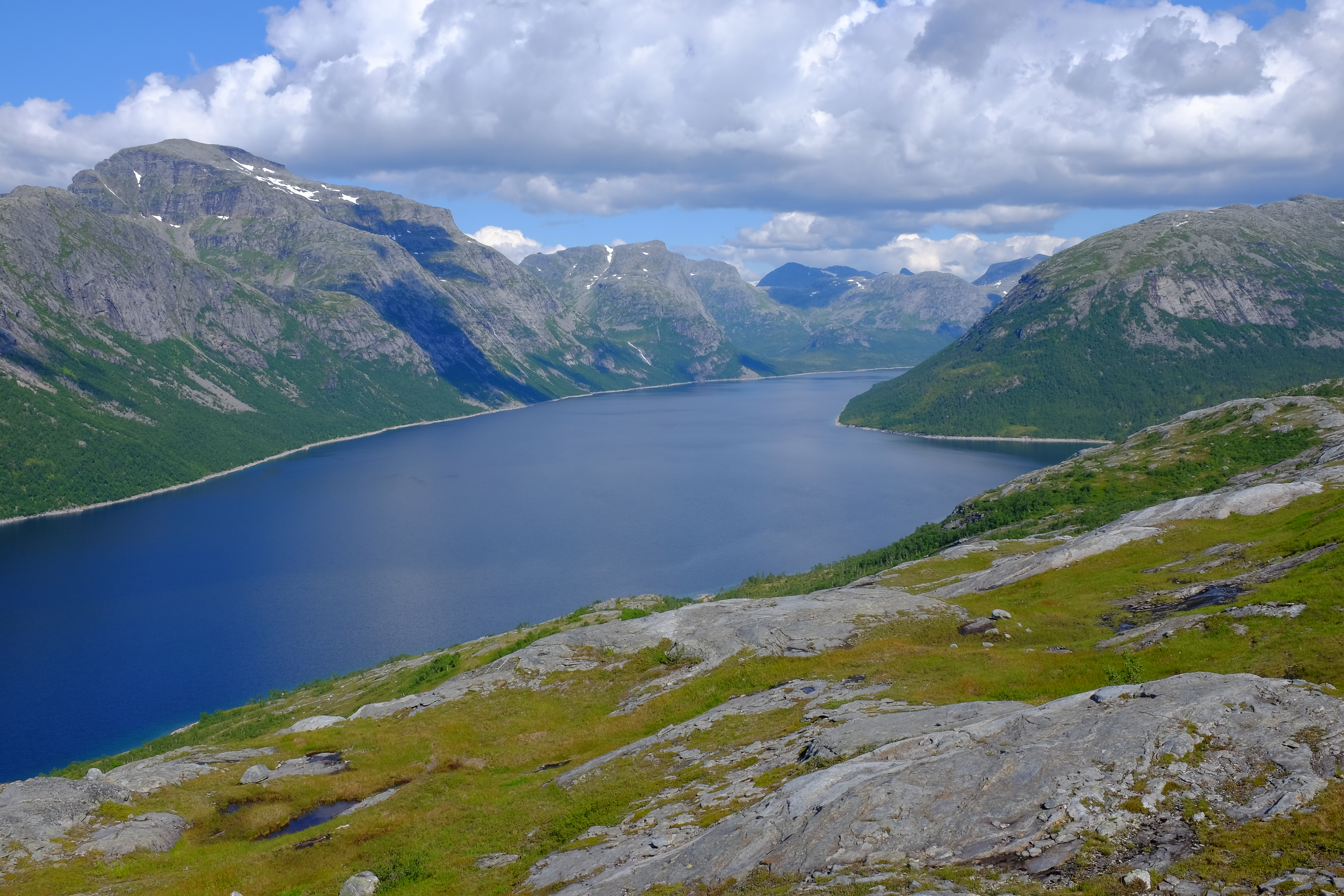 The lake Heggmovatnet is a reservoir for Heggmoen power plant and in addition main water source for Bodø, Nordland, Norway.